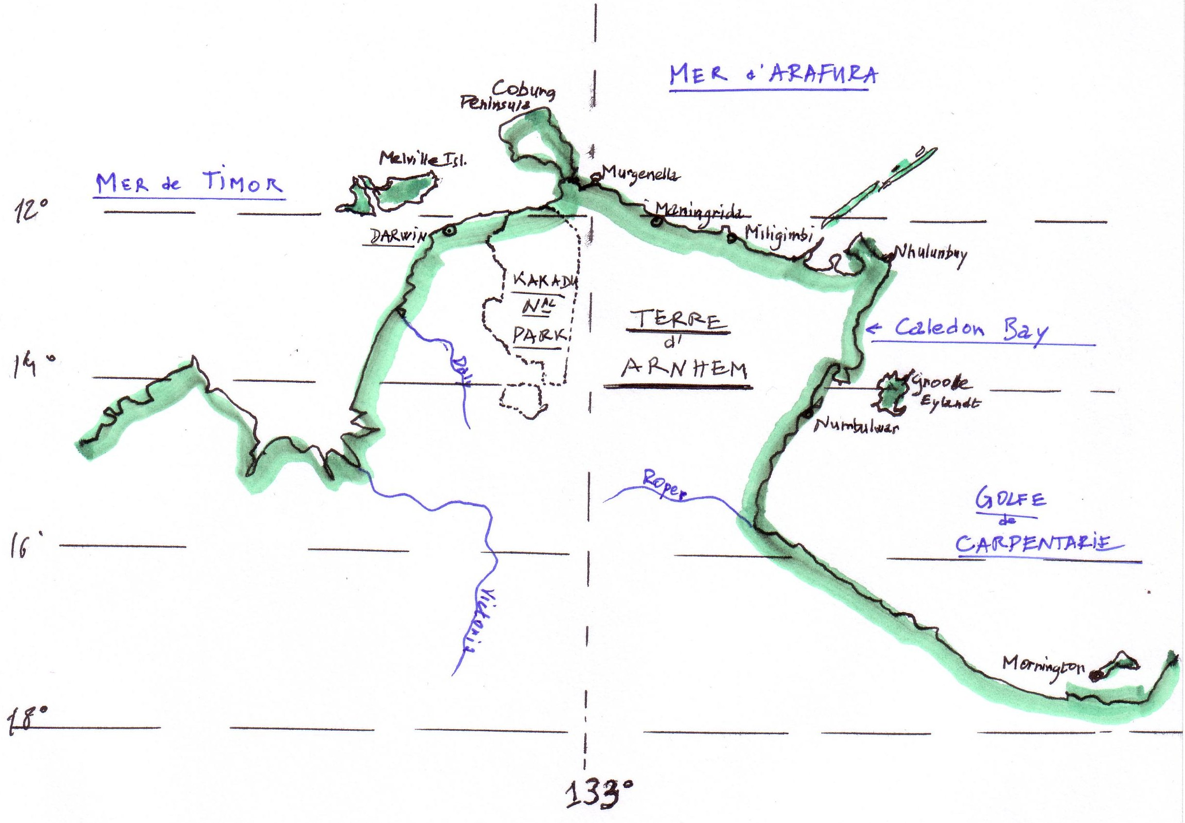 Topographic sketch of Arnhem Land (Northern Territories, Australia). Note the indigenous, dutch, and english toponymy.